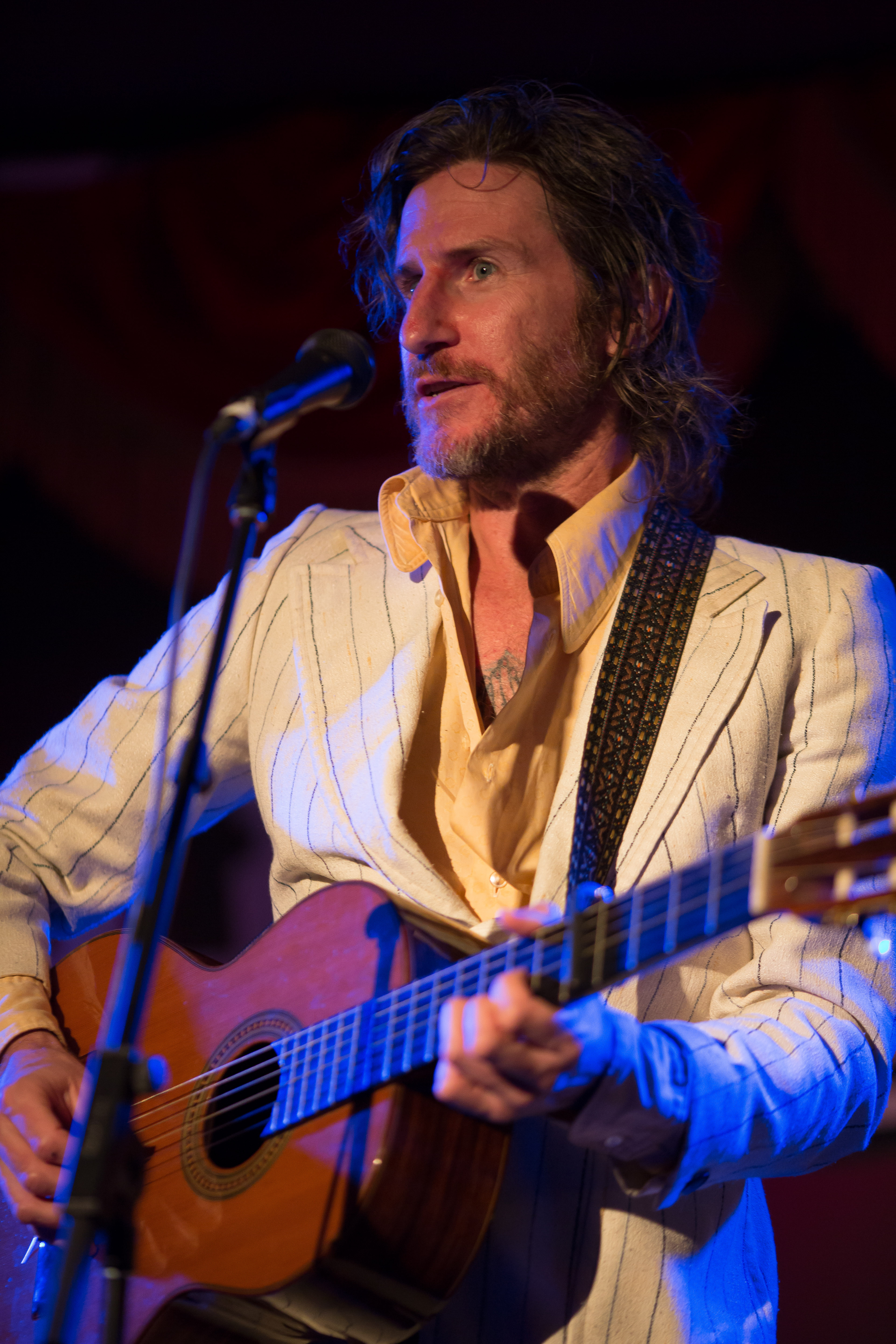 Tim Rogers @ Lizottes - 5th April 2014